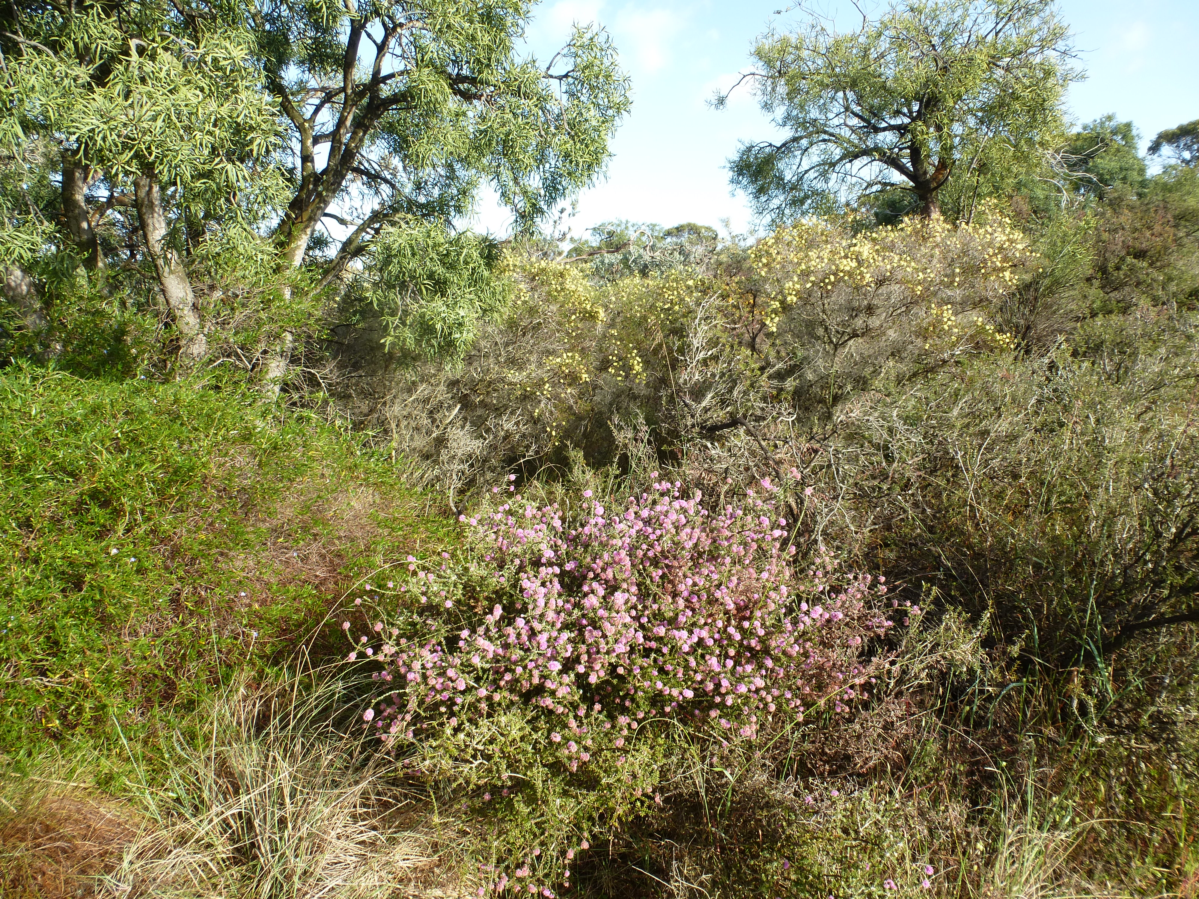 Melaleuca tuberculata arenia growing 50 km west of Esperance